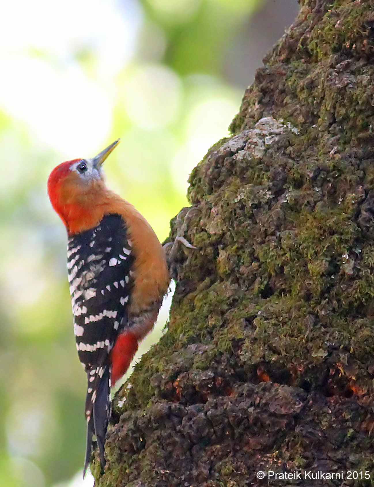 I have clicked this bird in December 2015 in Sattal which is a birding paradise in Uttarakhand. This bird belongs to Woodpecker family and it's indeed very colourful and pretty.